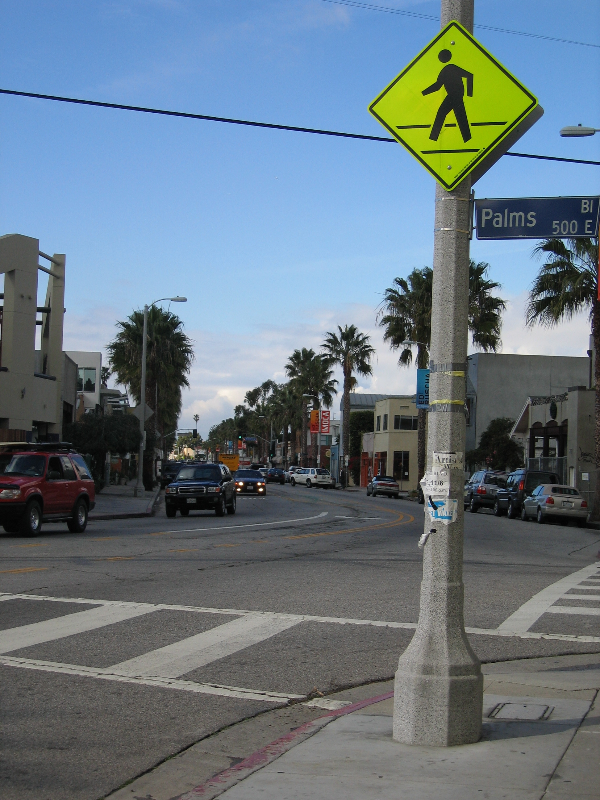 A crosswalk on a streetLooking down Abbot Kinney